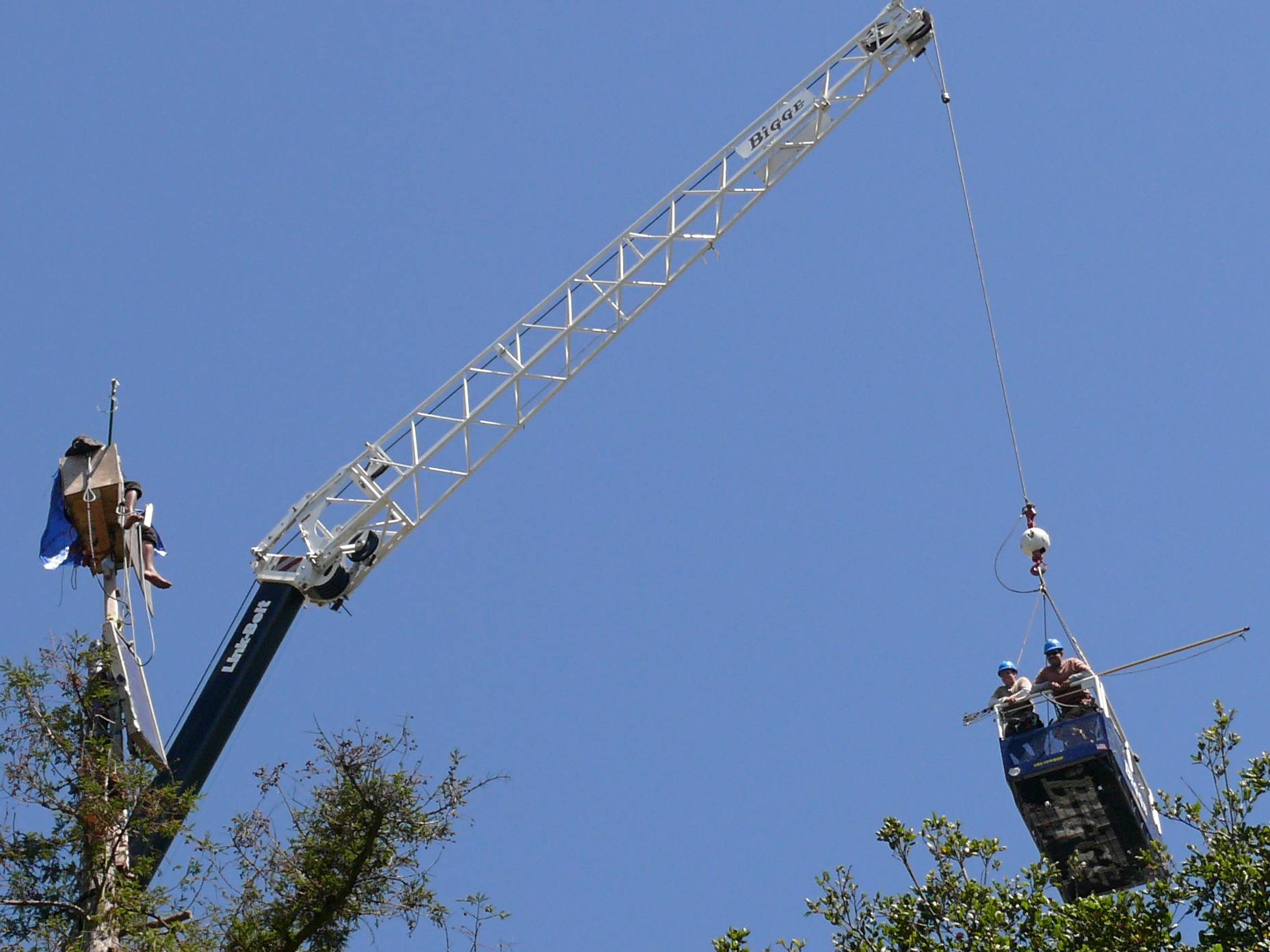 Altercation between Berkeley tree-sitters and tree trimmers on August 21, 2008